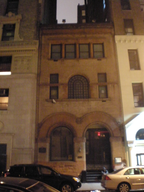 This photo is of Wikipedia Takes Manhattan location code 107, 29 East 32nd Street.